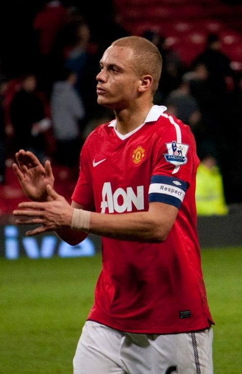 Wes Brown & Chris Smalling